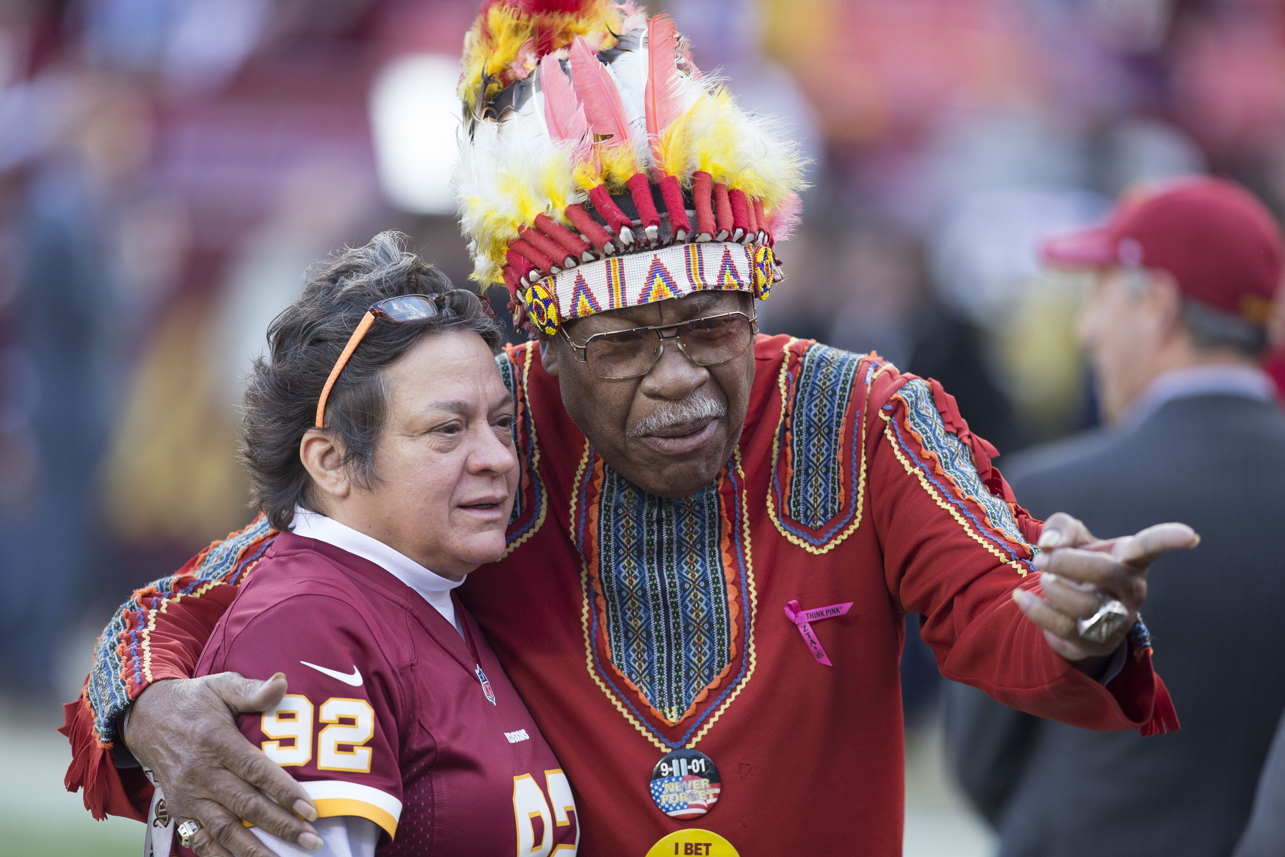 Packers at Redskins Wildcard Game 01/10/16